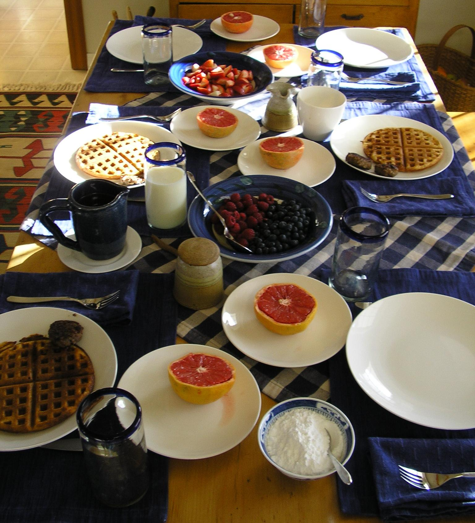 American Country Breakfast served around Thanksgiving 2006.